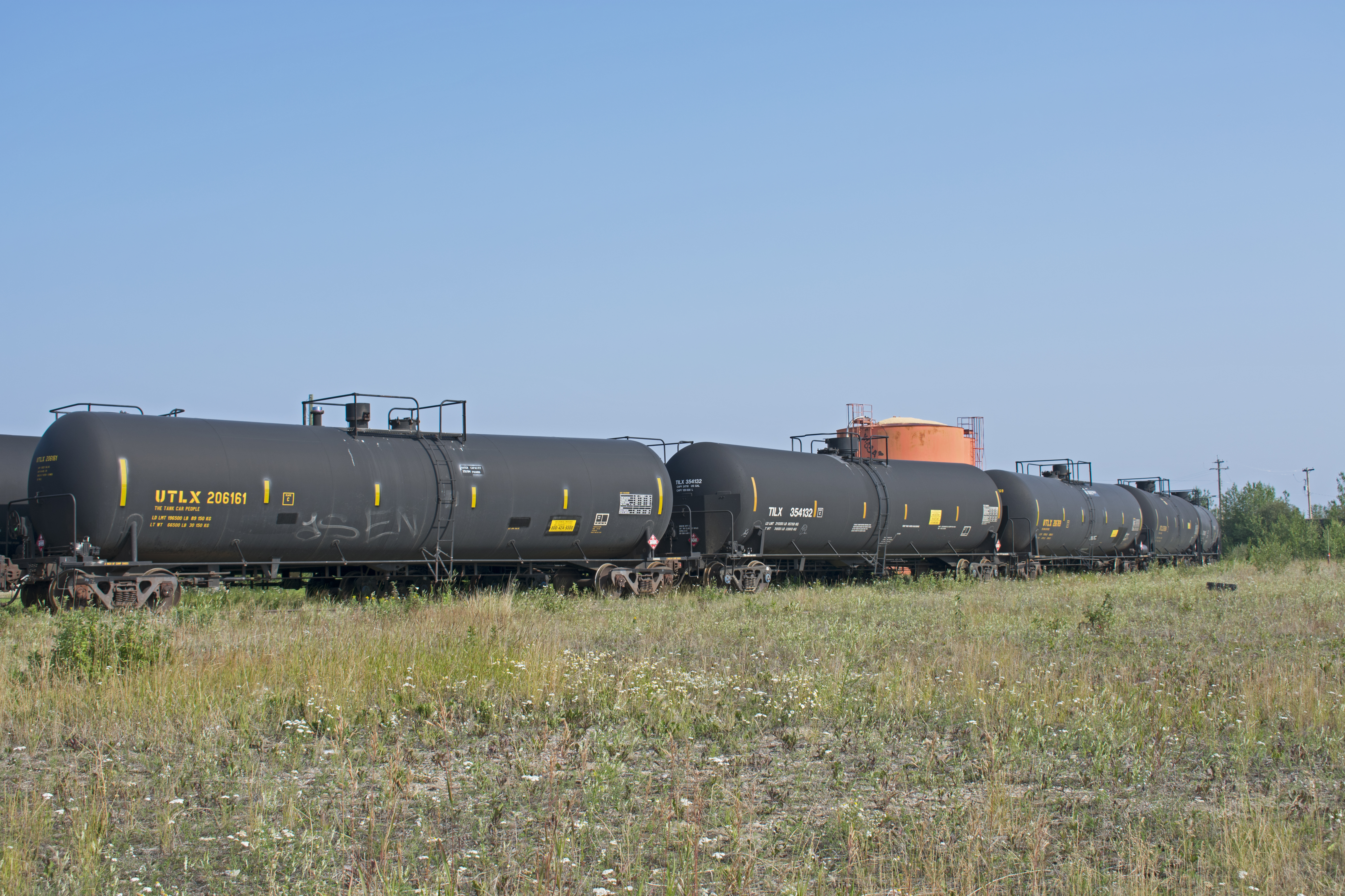 Railway cars in Hay River, nest to the Fisherman's Wharf